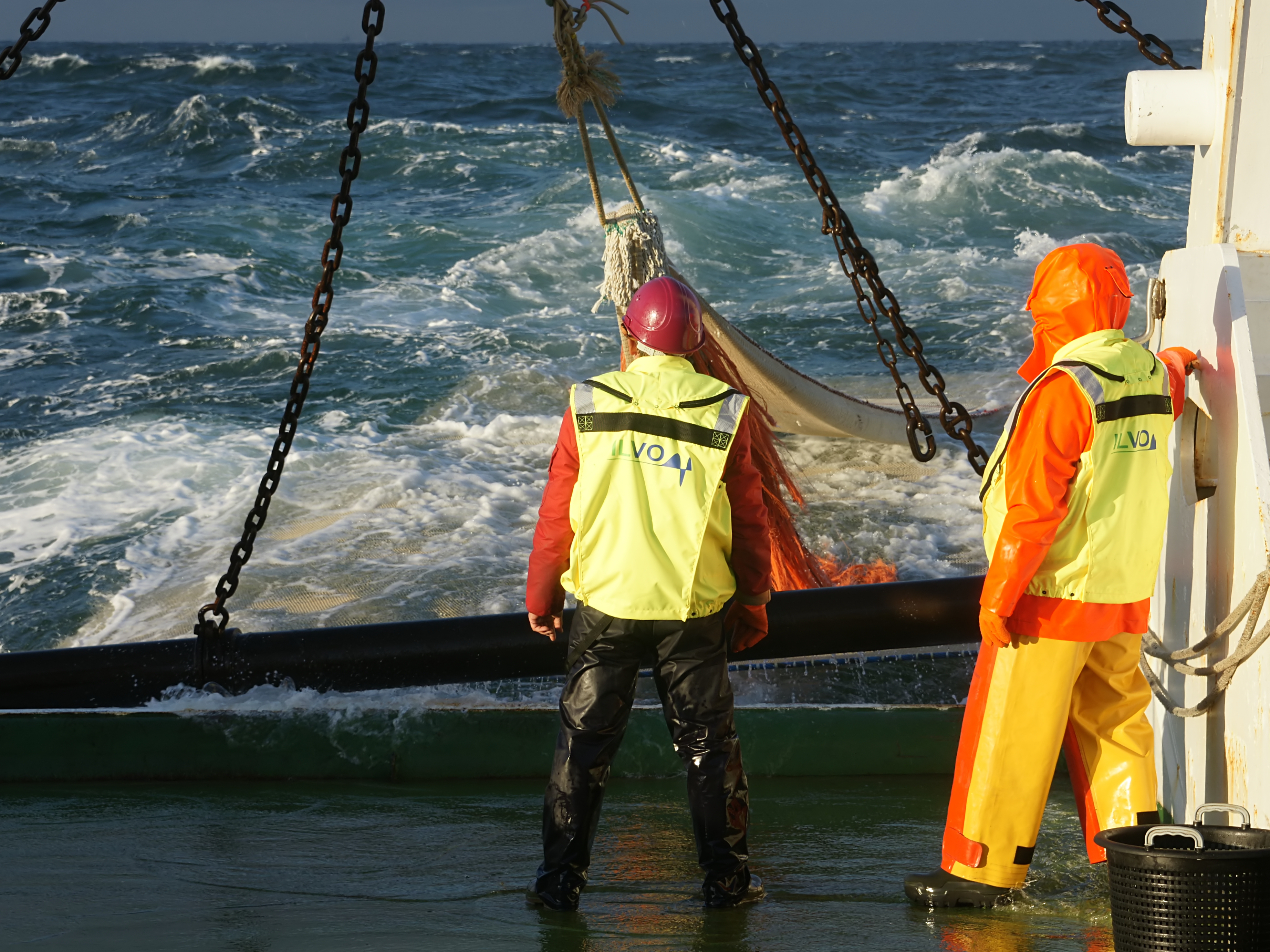 Choppy seas while hauling the net on the Oosthinder bank on the Belgian part of the North Sea.